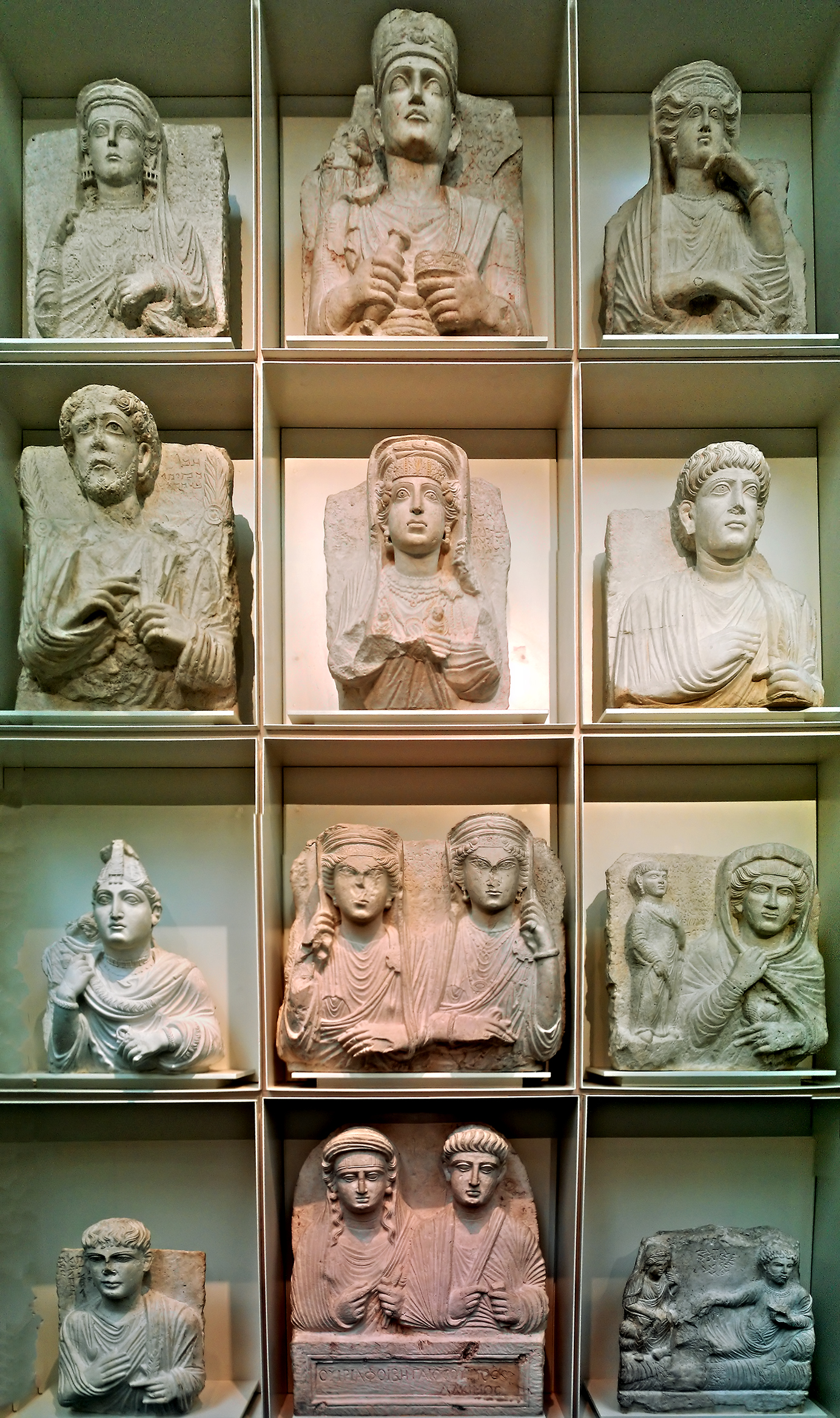 (from top-left) 1. Tamma, daughter of Shamshigeram, son of Maliku, son of Nassum. 2. Moqimu, son of Gediah, (son of) Ate'aqab the servant. 3. Aqme, daughter of Habazi. 4. Moqimu, son of Moqimu. 5. Herta, daughter of Ogilu, son of Salmôi, wife of Rabel, son of Yarhai Yat. 6. Unnamed young man holding a leaf. 7. Unnamed woman wearing an elaborate ornament. 8. Marli, daughter of Elahbel, son of Maki (left); Marion, daughter of Elhabel (right). 9. Shalmat and Shalmat her mother, daughter of Shamshigeram. 10. Ate'aqab son of Abia. 11. Viria Phoebe and Gaius Virius Lacimus. 12. Unnamed couple. The man reclining, the woman seated.